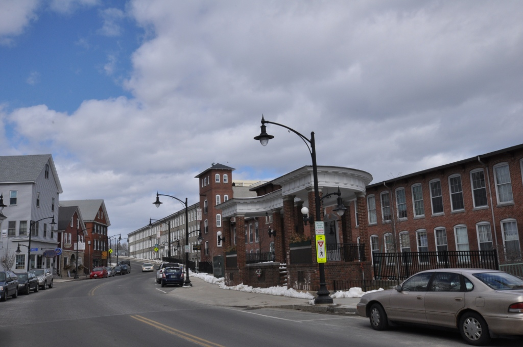 Main Street (RT 108) in Newmarket, New Hampshire; part of the Newmarket Industrial and Commercial Historic District.